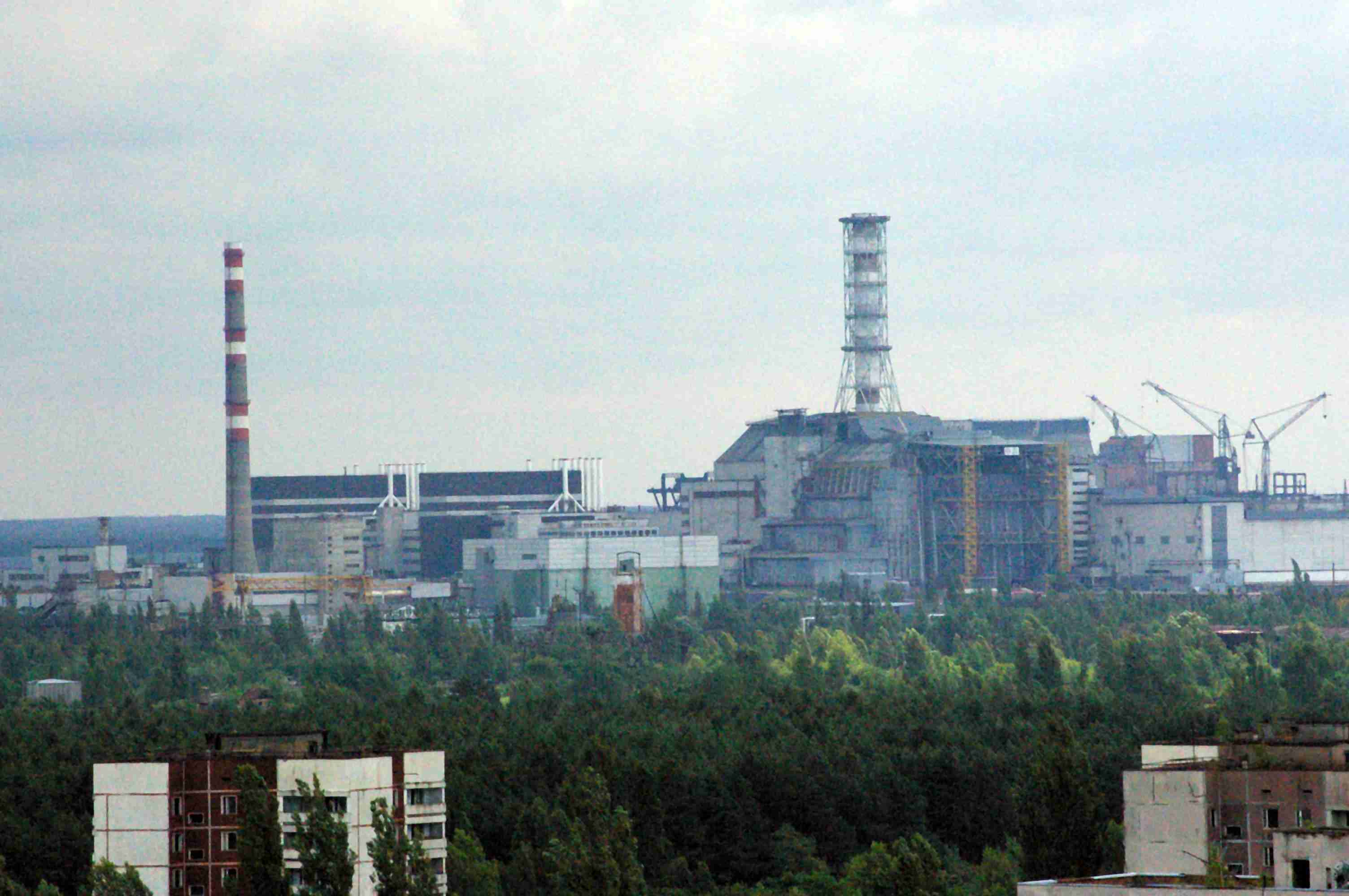 Chernobyl nuclear power plant in north-west view. From the roof of a 16-storey apartment building (1/14 Lazaryev street, Pripyat, Ukraine)